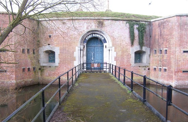 Fort Rowner-Gosport Another huge fort with a moat. It seems to be exactly the same as Fort Brockhurst, which is about a quarter of a mile north